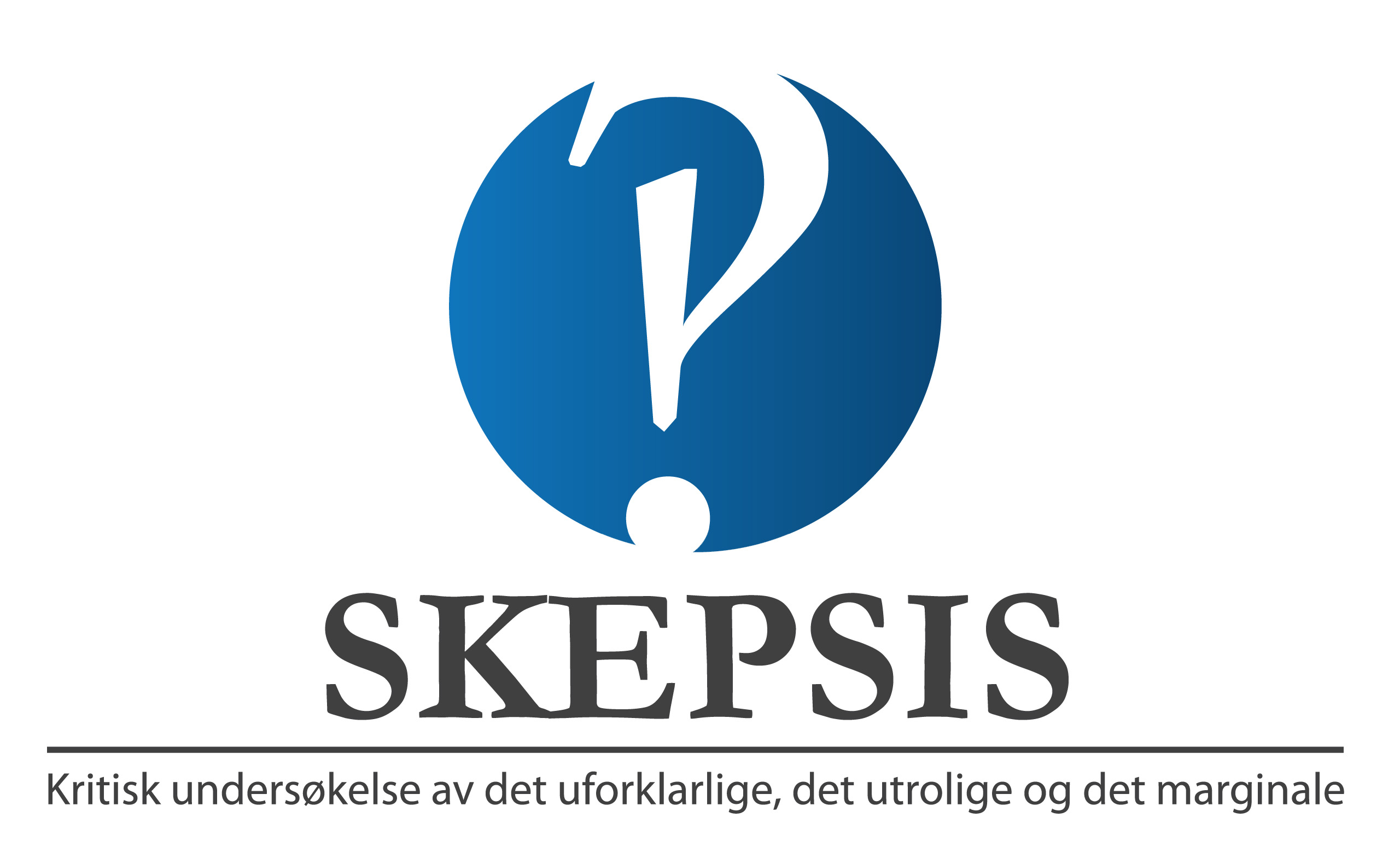 Skepsis logo